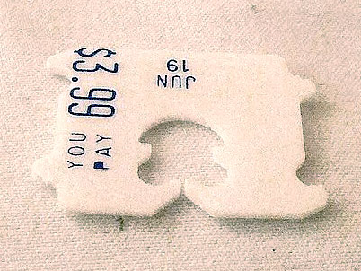 White bread clip on cloth.